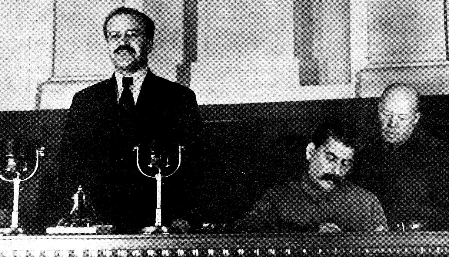 17th Congress of the All-Union Communist Party (Bolsheviks). Molotov, Stalin, Poskrebyshev (left to right).